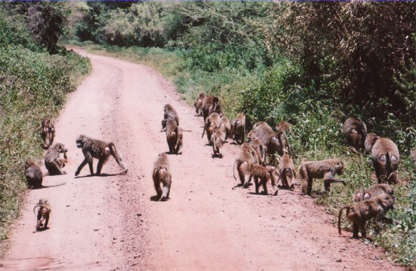 A troop of baboons on a road in Tanzania, 2001.